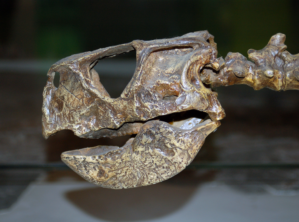 Photo: mounted cast of a Psittacosaurus mongoliensis at the Australian Museum, Sydney.